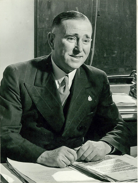 Charles McFadyen at his desk in 1957.